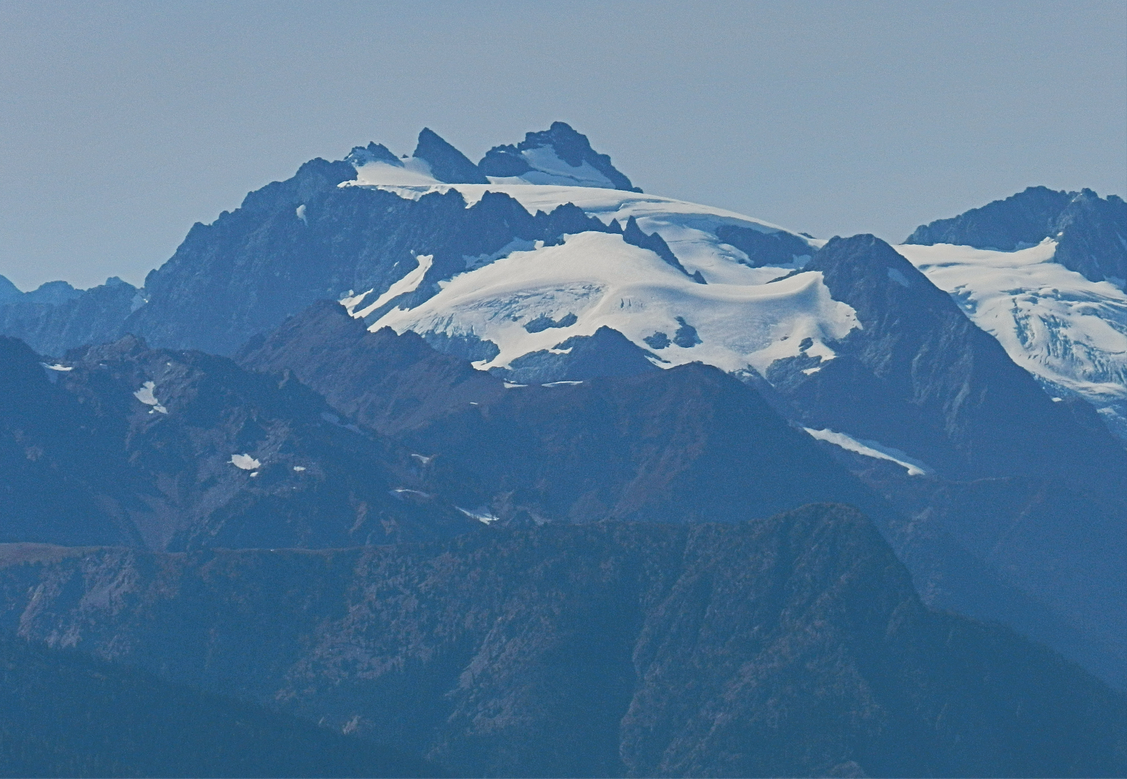 Sentinel Peak seen from the Maple Pass area of the North Cascades